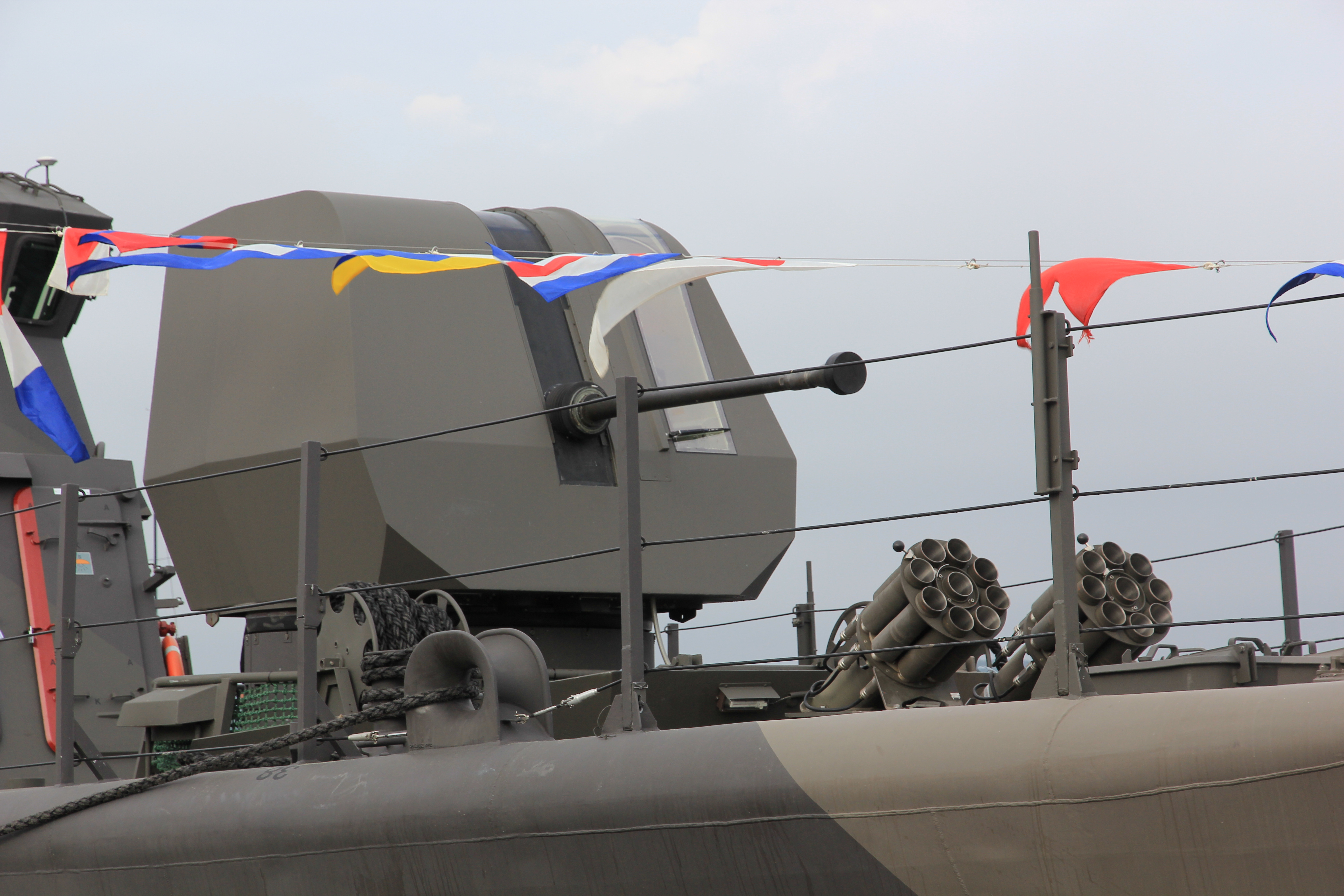 Missile boat Raahe bow 40 mm Bofors E gun and two Bofors Elma anti-submarine mortars photographed during Finnish Defence Forces 2013 Flag day in Ekenäs harbour.